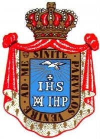 Emblem of Sisters of the Holy Family of Urgel, religious congregations devoted to teaching, from a book published in 1910